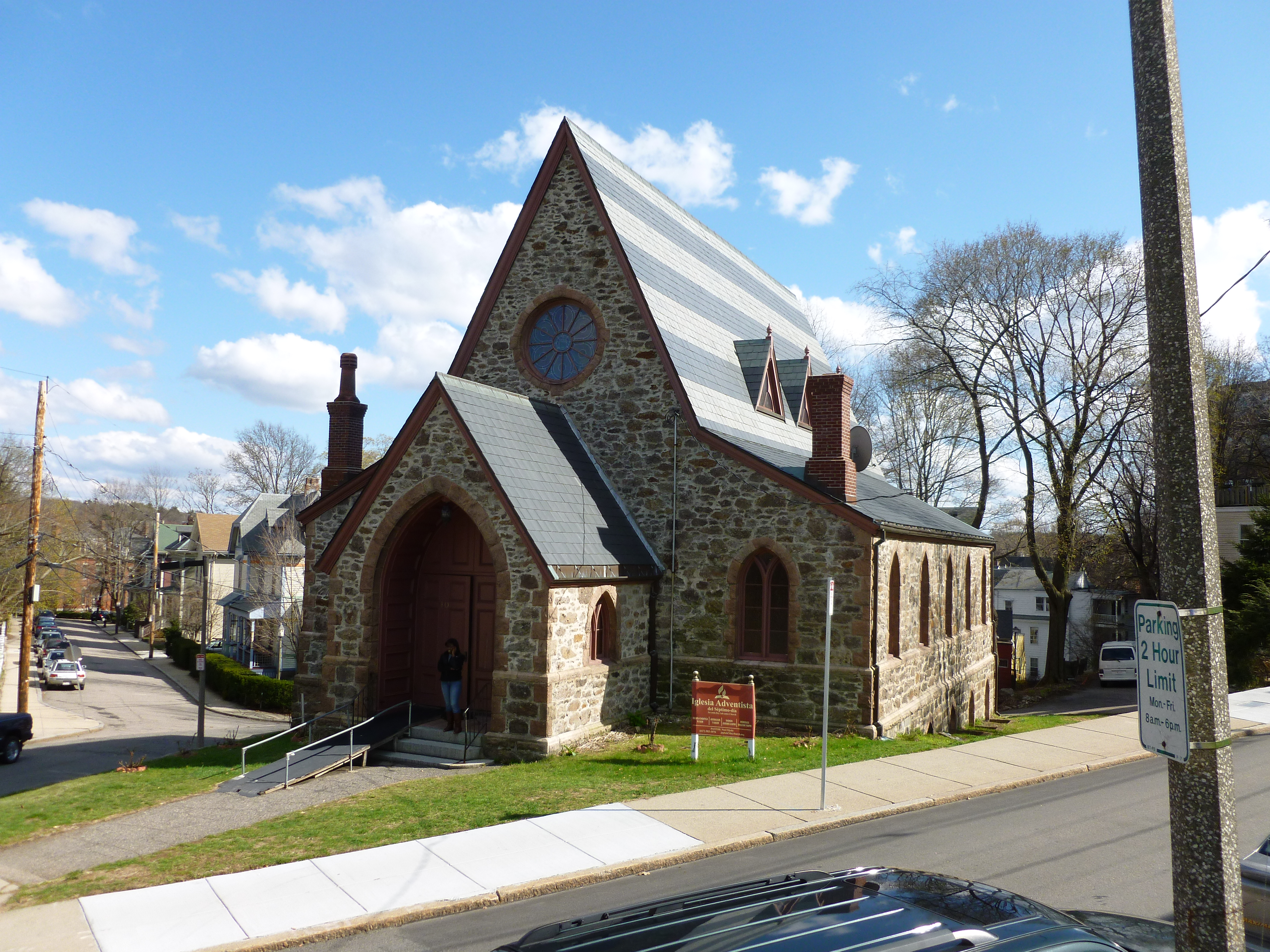 Iglesia Adventista del Septimo-dia, a Hispanic Seventh Day Adventist Church located at 40 Elm Street in Jamaica Plain, Boston, MA 02130.